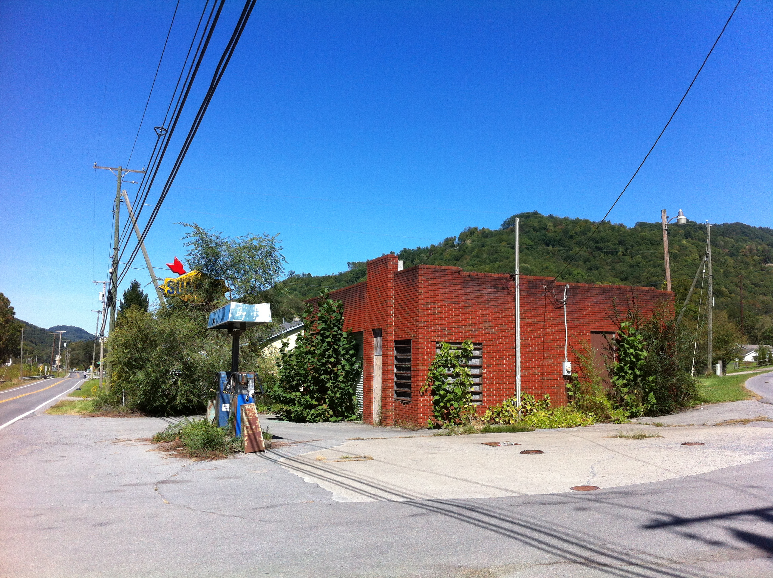 Abandoned Sunoco service station in Kincaid, West Virginia. View along the road.